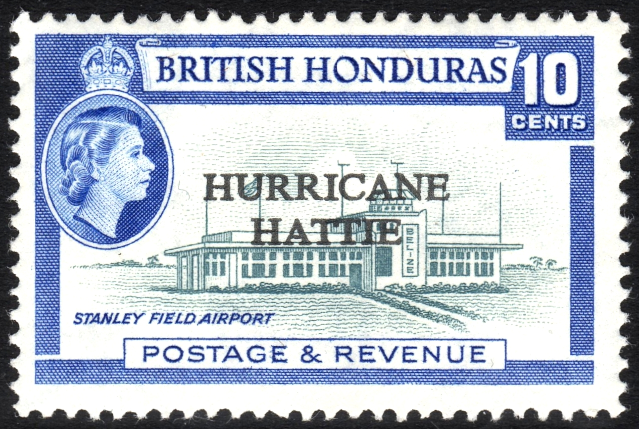 1953 stamp of British Honduras overprinted for Hurricane Hattie in 1962.